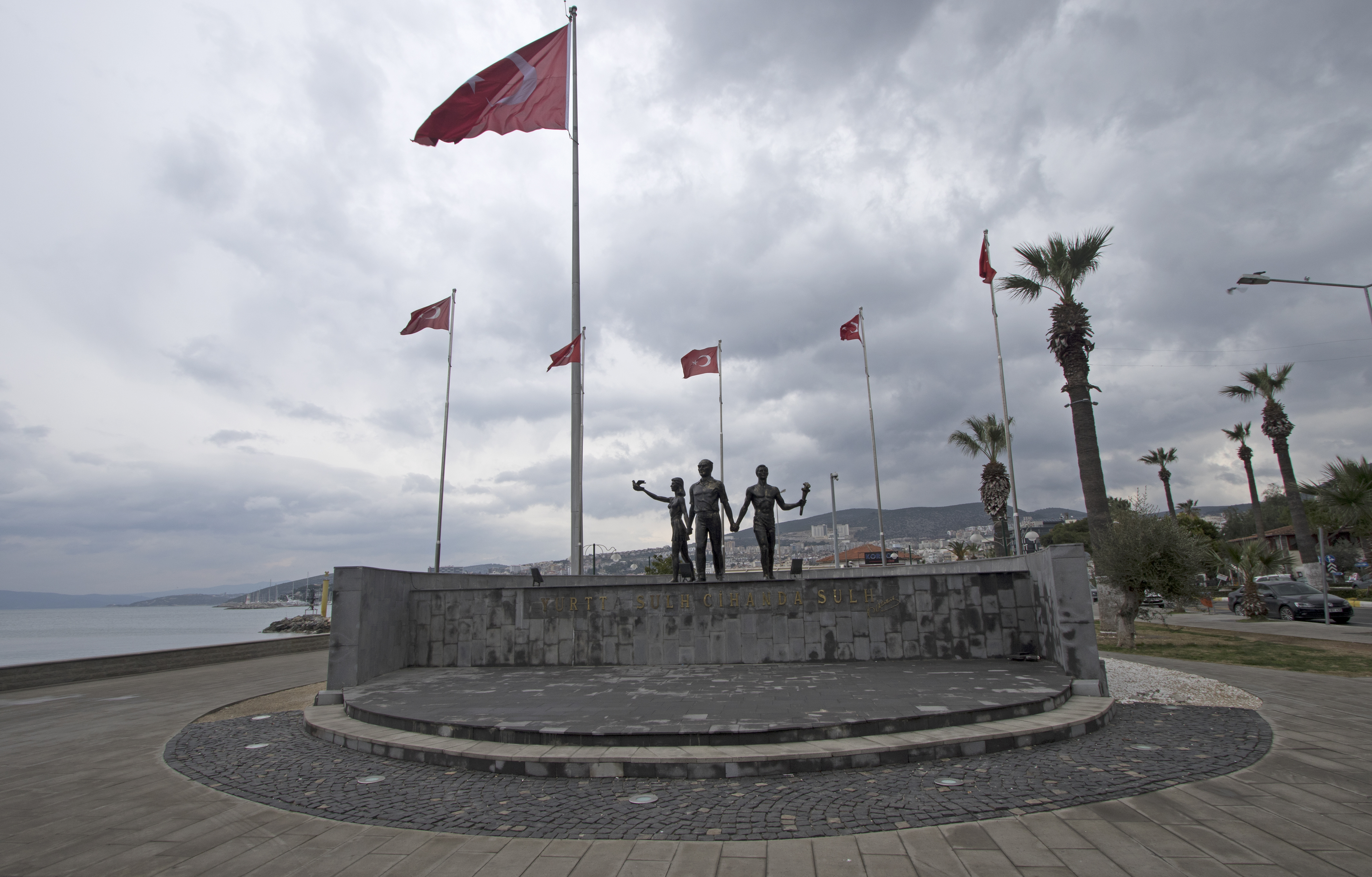 A view of Atatürk Monument in Kuşadası - Aydın, Turkey.